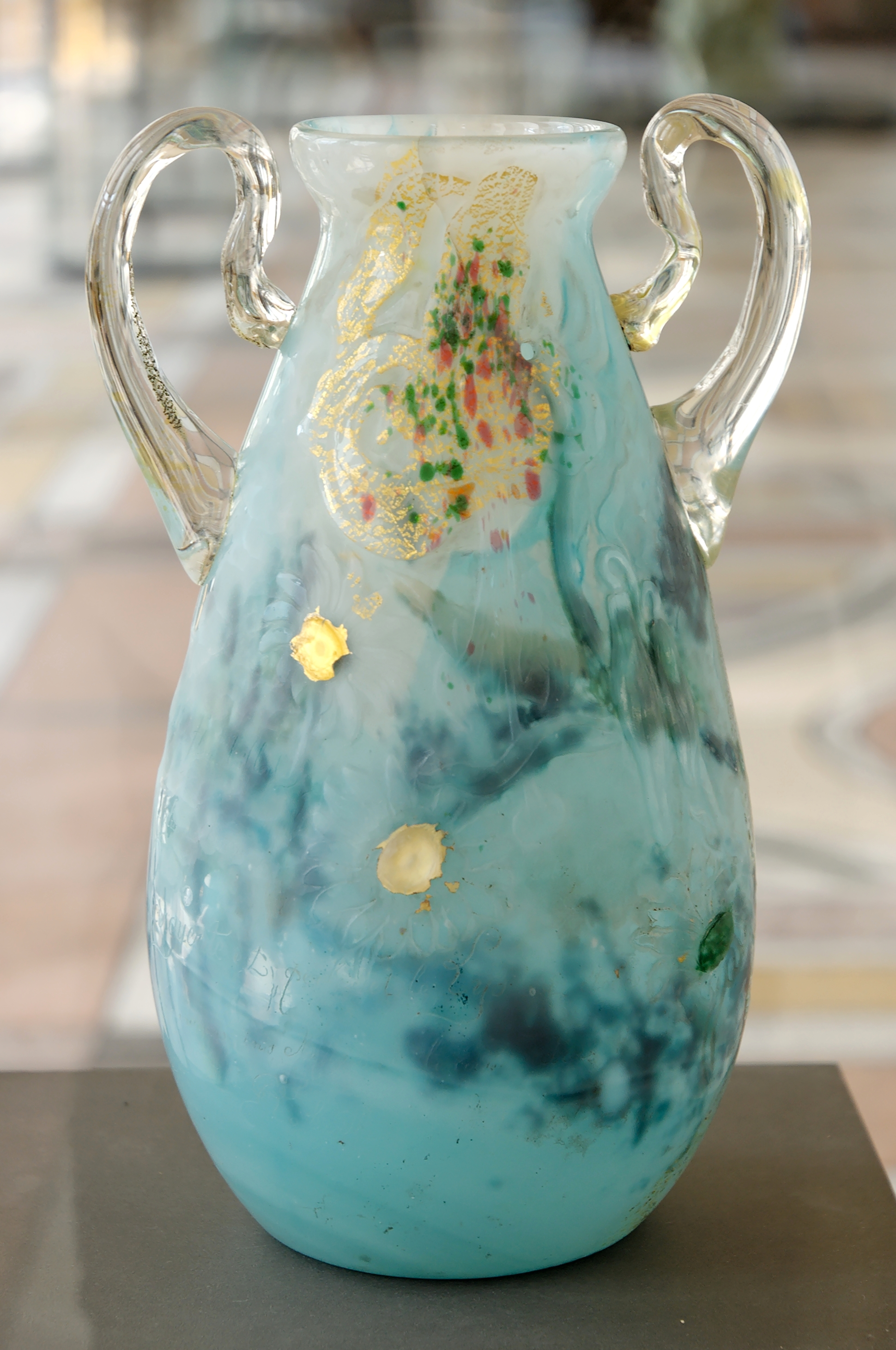 Vase with lilies and daises, face A. Study #4 for a vase commissioned by Countess Henri Greffulhe as a wedding gift for Princess Marguerite de Chartres, hence the decoration of daisies ("marguerites" in French). The vase is inscripted with a quatrain by French poet Robert de Montesquiou, cousin to the countess. Multi-layered blown crystal with inclusions of glass and gold dust, cabochons and handles added on and fused, 1896.